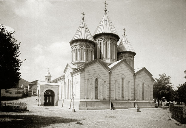 Vanqi Church. old Tbilisi